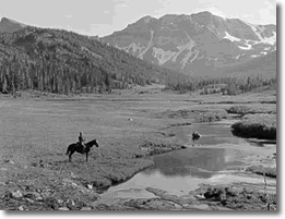 Photograph by Kenneth Dupee Swan for the USDA.